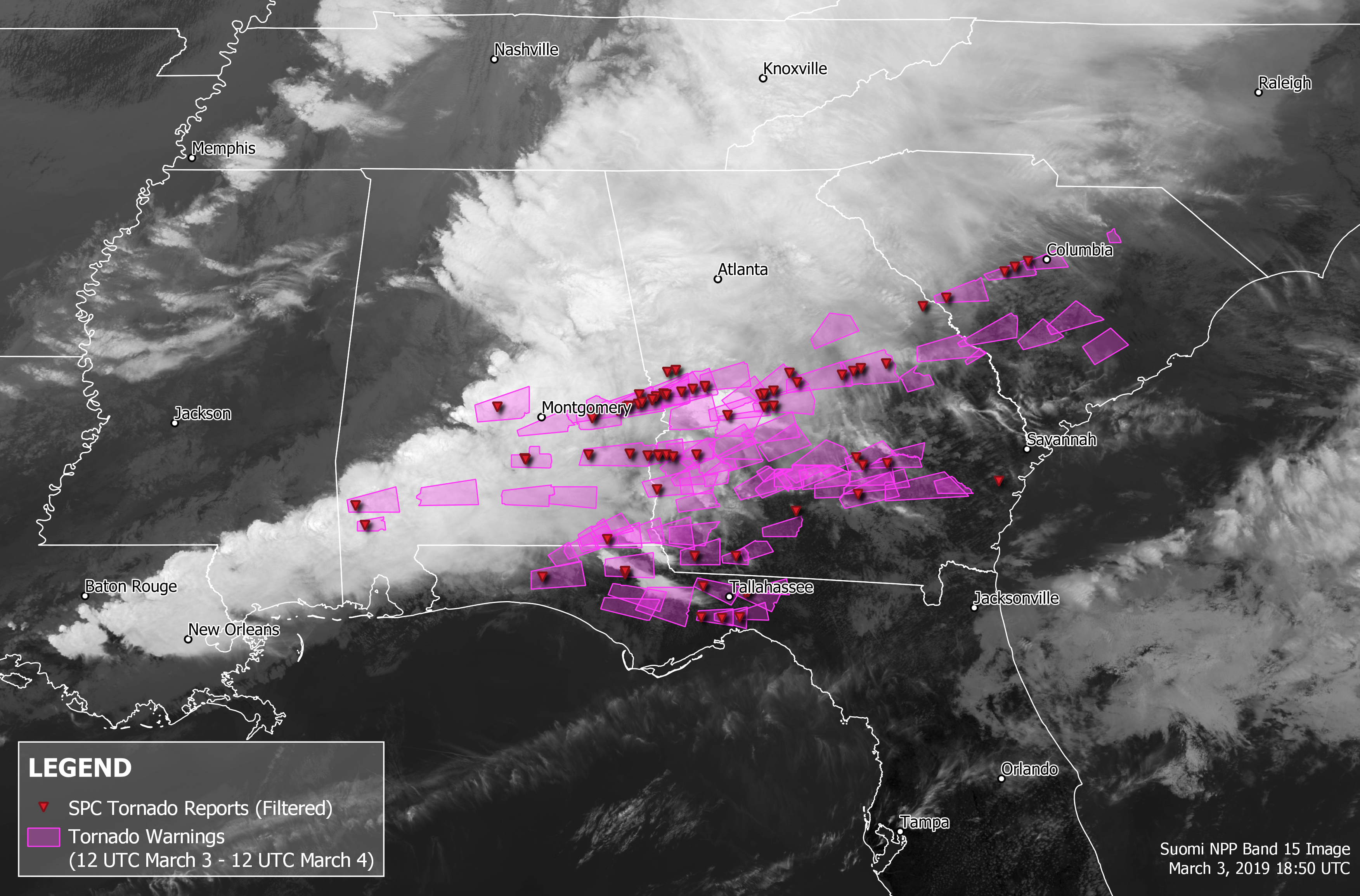 Map of tornado warnings issued by the National Weather Service on March 3, 2019 over the southeastern United States and tornado reports received by the Storm Prediction Center (SPC) overlaid over a Suomi NPP band 15 infrared brightness temperature image from 18:50 UTC. Map produced in QGIS with border outlines from the United States Census Bureau. National Weather Service warning outlines available from the Iowa Environmental Mesonet and tornado reports available from the Storm Prediction Center. Suomi NPP imagery from NASA Worldview.